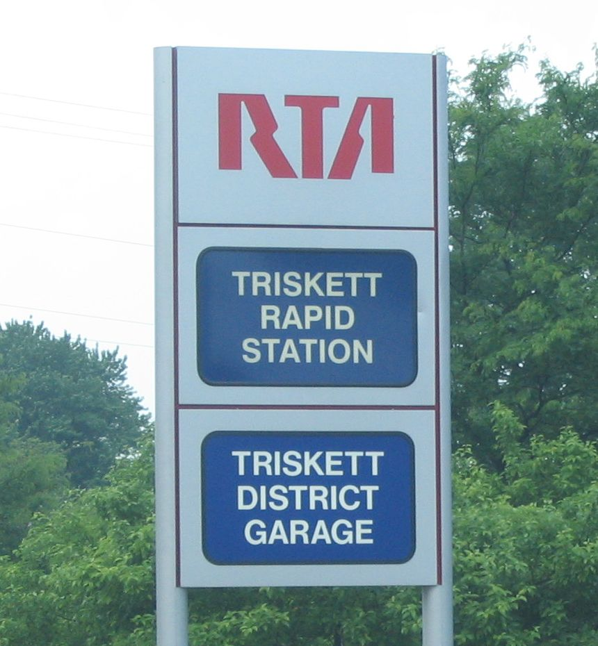 Sign at the entrance to Triskett Station on the Red Line of Cleveland RTA Rapid Transit